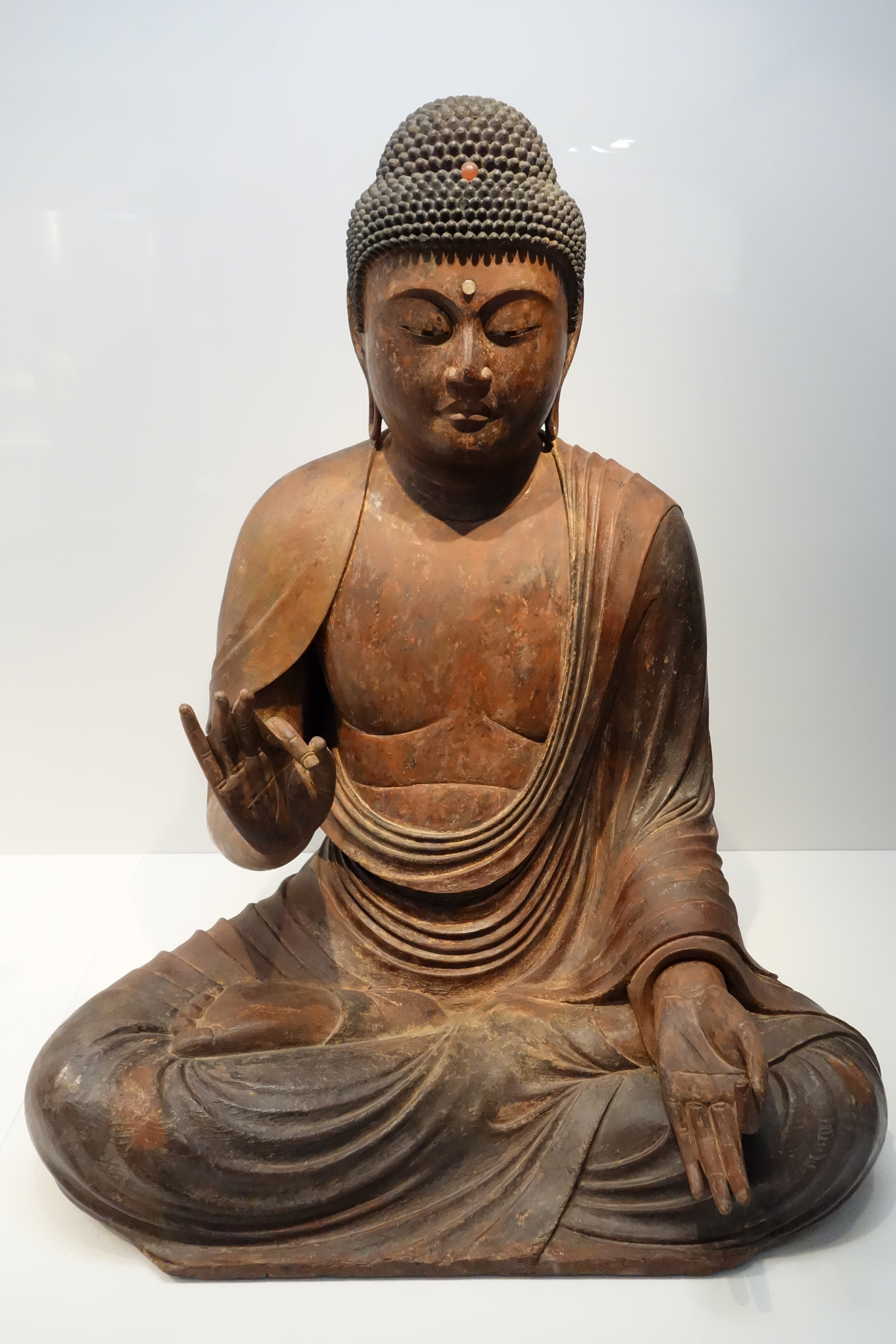 Exhibit in the Tokyo National Museum, Tokyo, Japan. This artwork is old enough so that it is in the public domain.